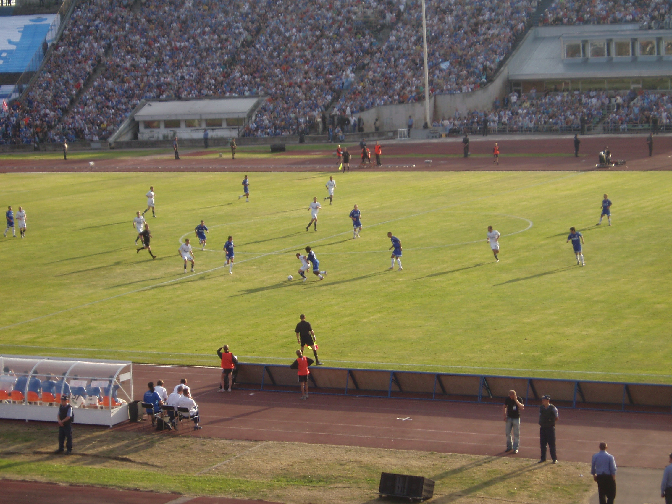 Match between Zenit Saint Petersburg and Dynamo Moscow at the Kirov Stadium on 6 July 2006.